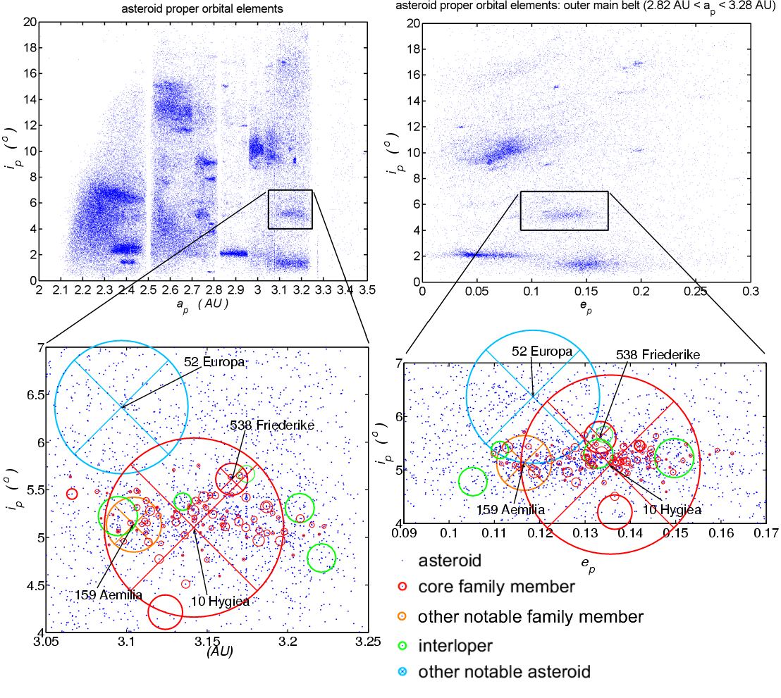 Diagrams showing the location and characteristics of the Hygiea family of asteroids. Where circles are plotted, their diameter is proportional to the mean diameter of the asteroid.